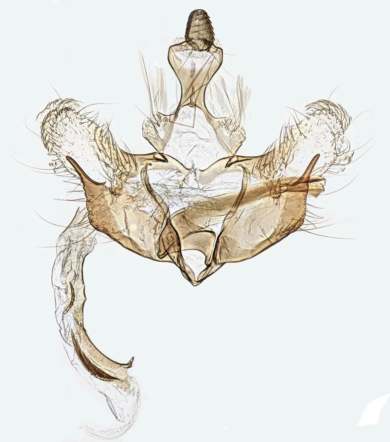 Coleophora glaucicolella, Trawscoed, North Wales, July 2015